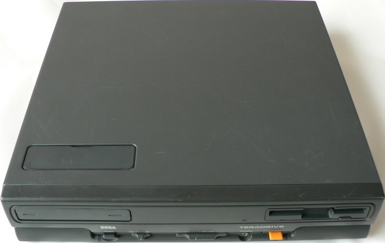 The Sega TeraDrive, a Mega Drive combined with a computer